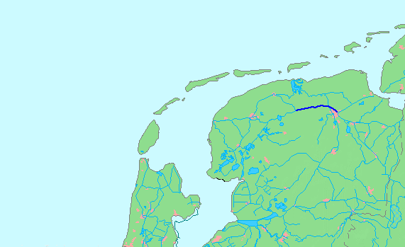 Location of a waterway (river/canal) in the Netherlends